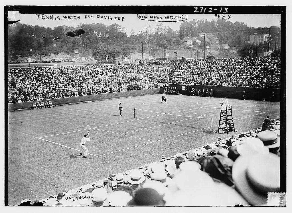 Davis Cup Tennis, 2013, West Side Tennis Club, New York, McLoughlin vs Rice (USA vs Australasia)